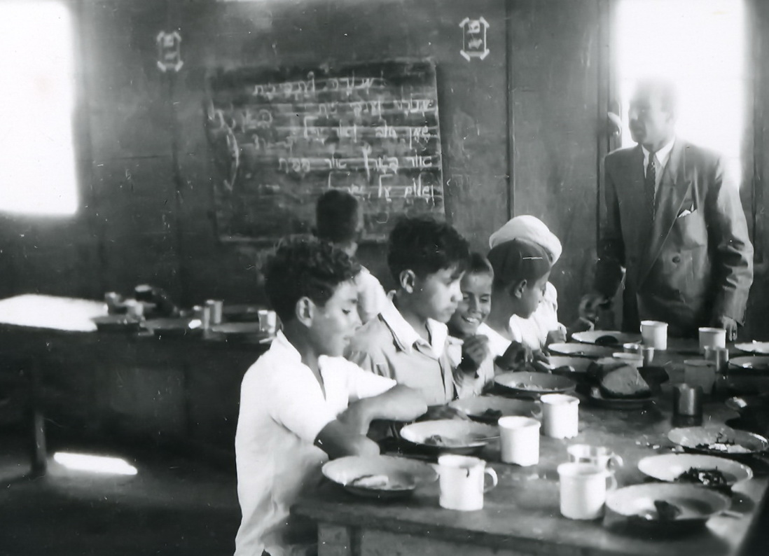 Sderot 11950, Settlements in Israel